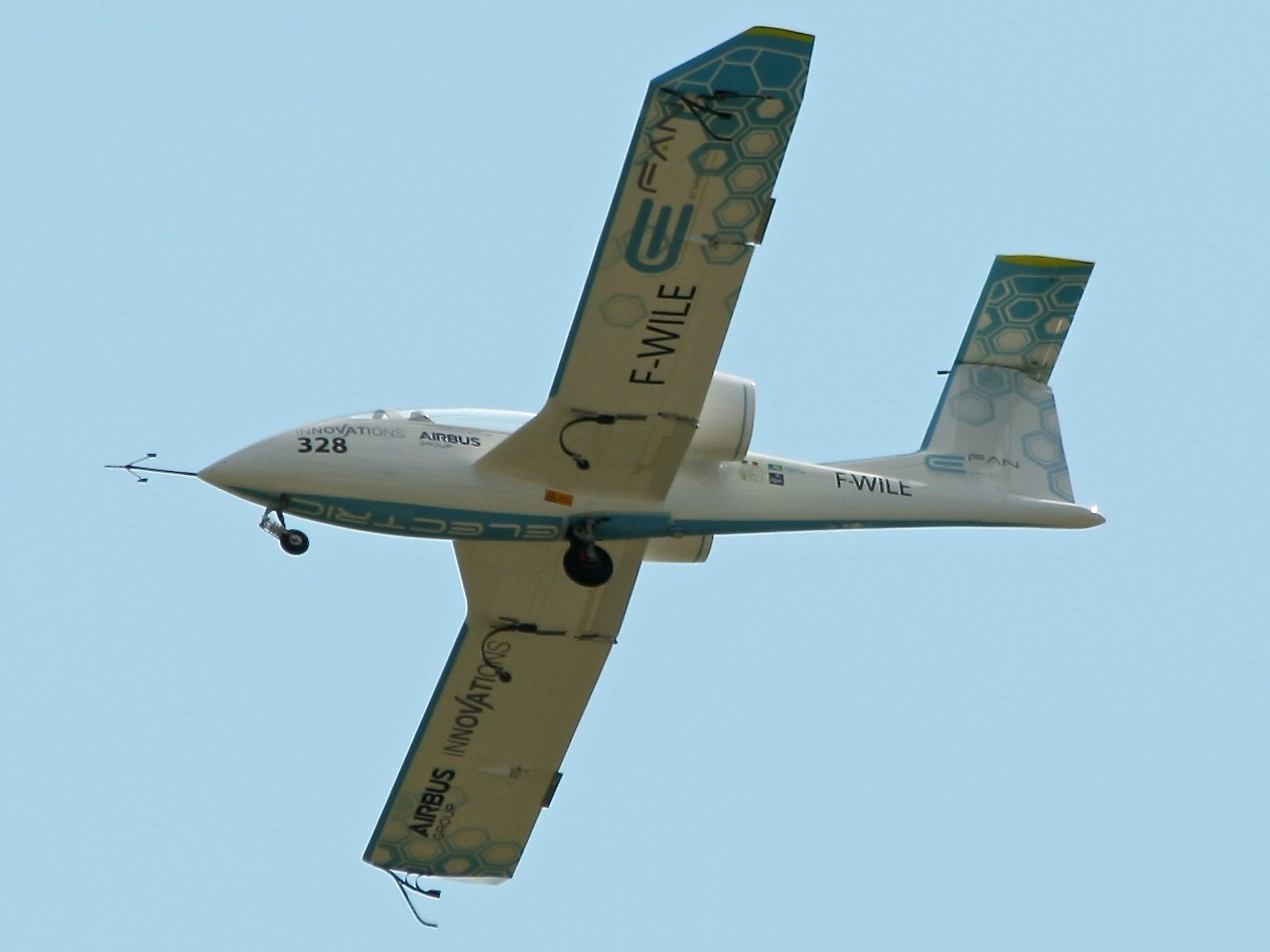 Airbus' all-new full-electric technology demonstrator in flight at ILA 2014 Berlin Air Show.